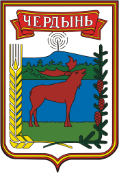 Cherdyn (Perm krai), coat of arms (1971)